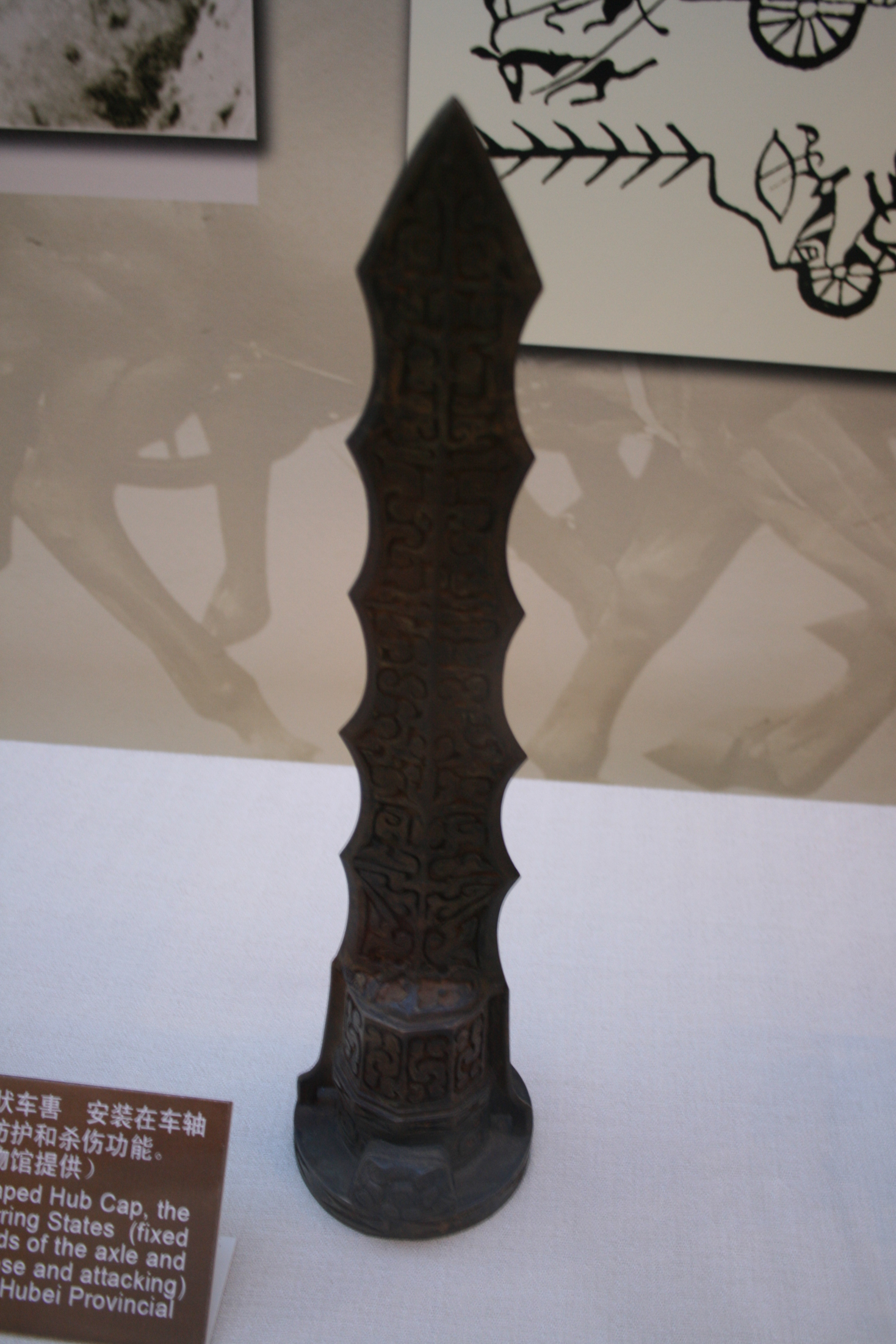 A Warring States axle hub.